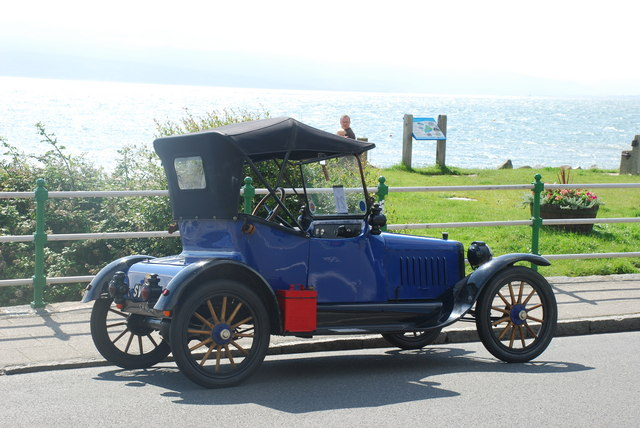 1916 Saxon - Criccieth